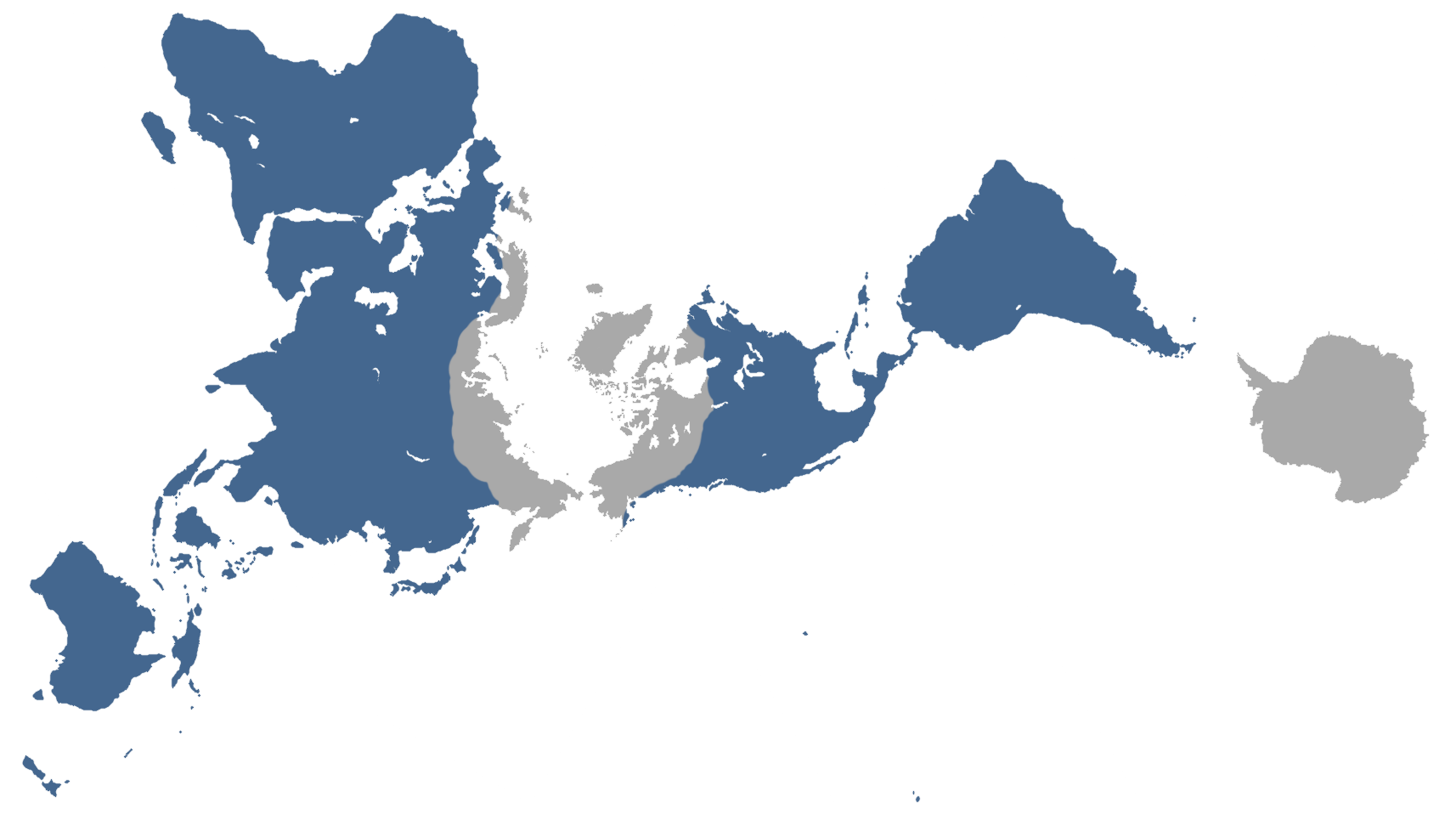 World distribution of Chiroptera. The geographical distribution of bats is shown in blue.